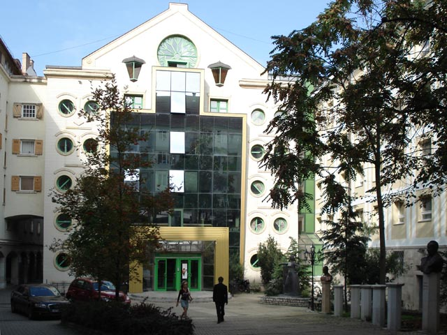 National Theatre of Miskolc – court